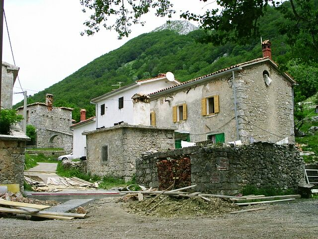 Nature and countryside of the Istria peninsula in Croatia